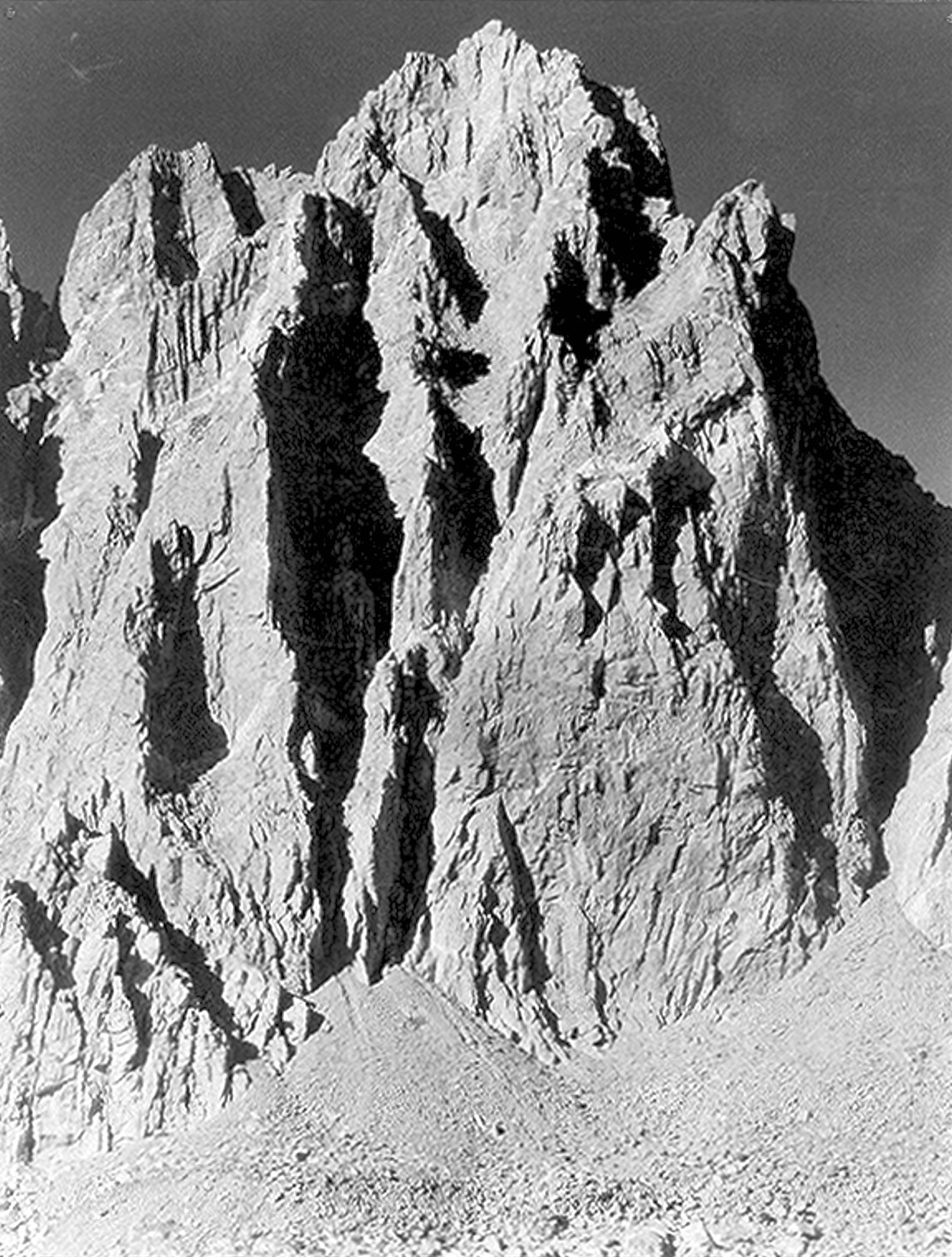 Mount Winchell — in Kings Canyon National Park, photographed by Ansel Adams, Sierra Nevada, California.